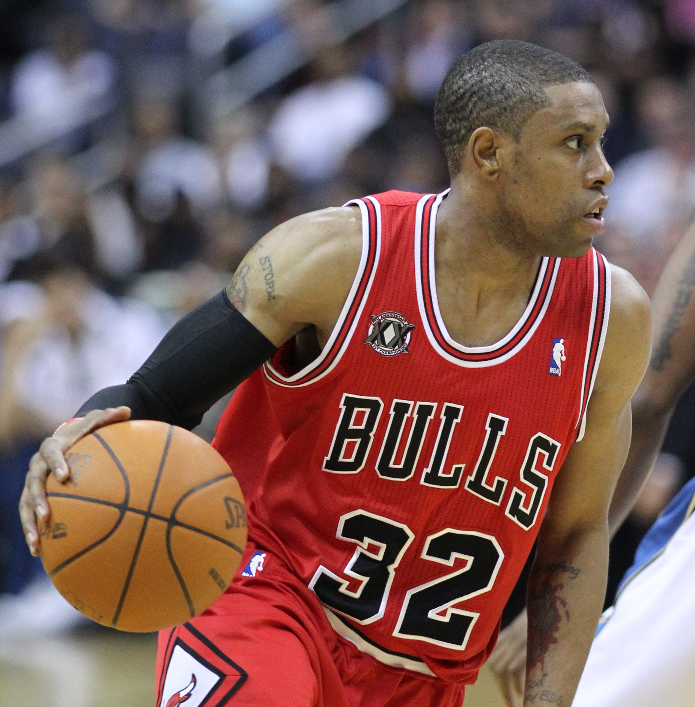 Wizards v/s Bulls 02/28/11